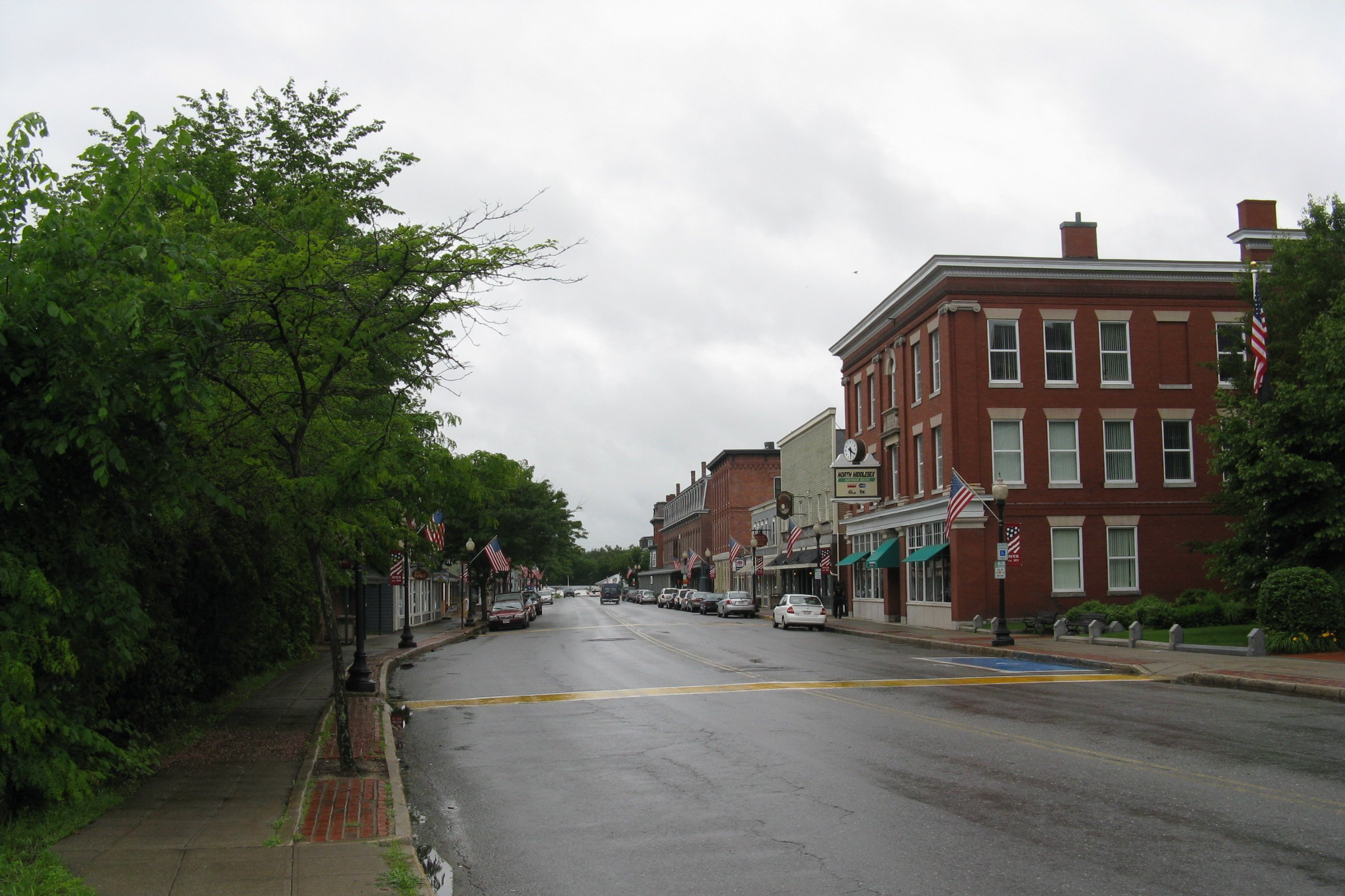 Looking West on Main Street, Ayer Massachusetts